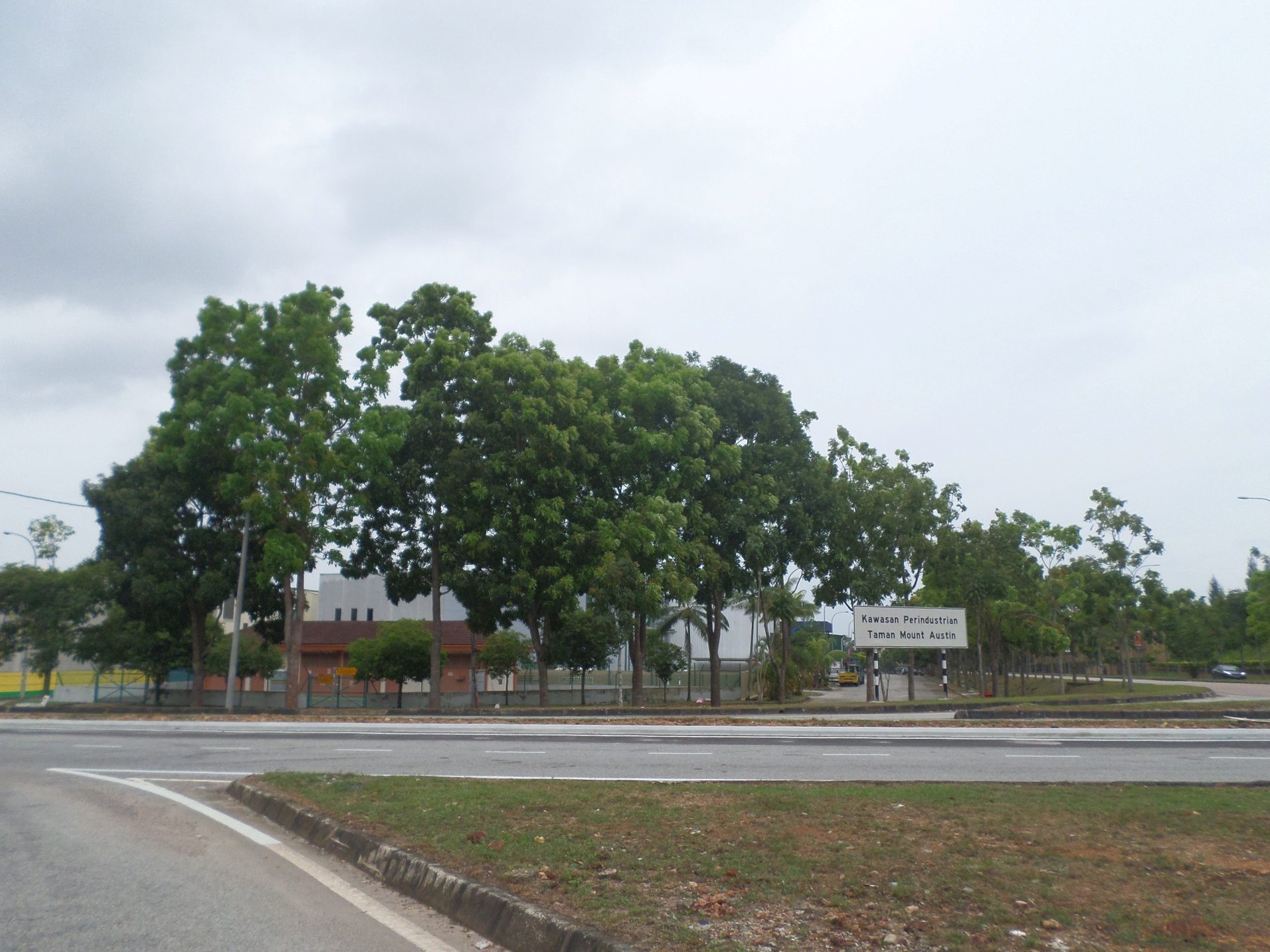 Taman Mount Austin Industrial Area, Austin Heights, Johor Bahru, Johor, Malaysia